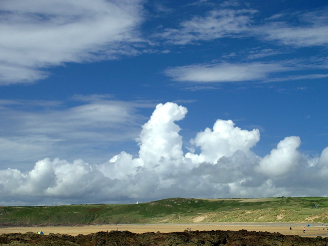 Freshwater West, Wales